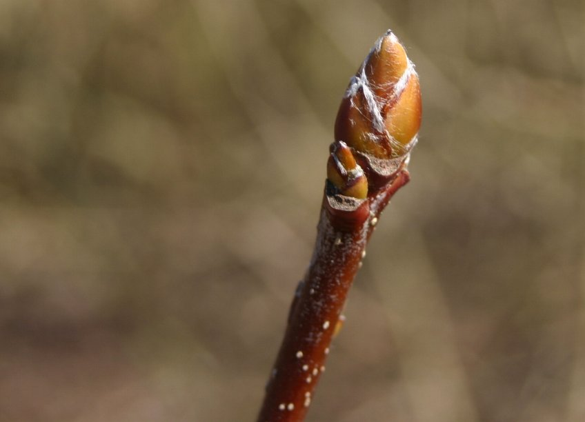 Description: Sorbus intermedia, bud. Source: Own photo, taken in Jutland, Apr 2006. Author: Sten Porse